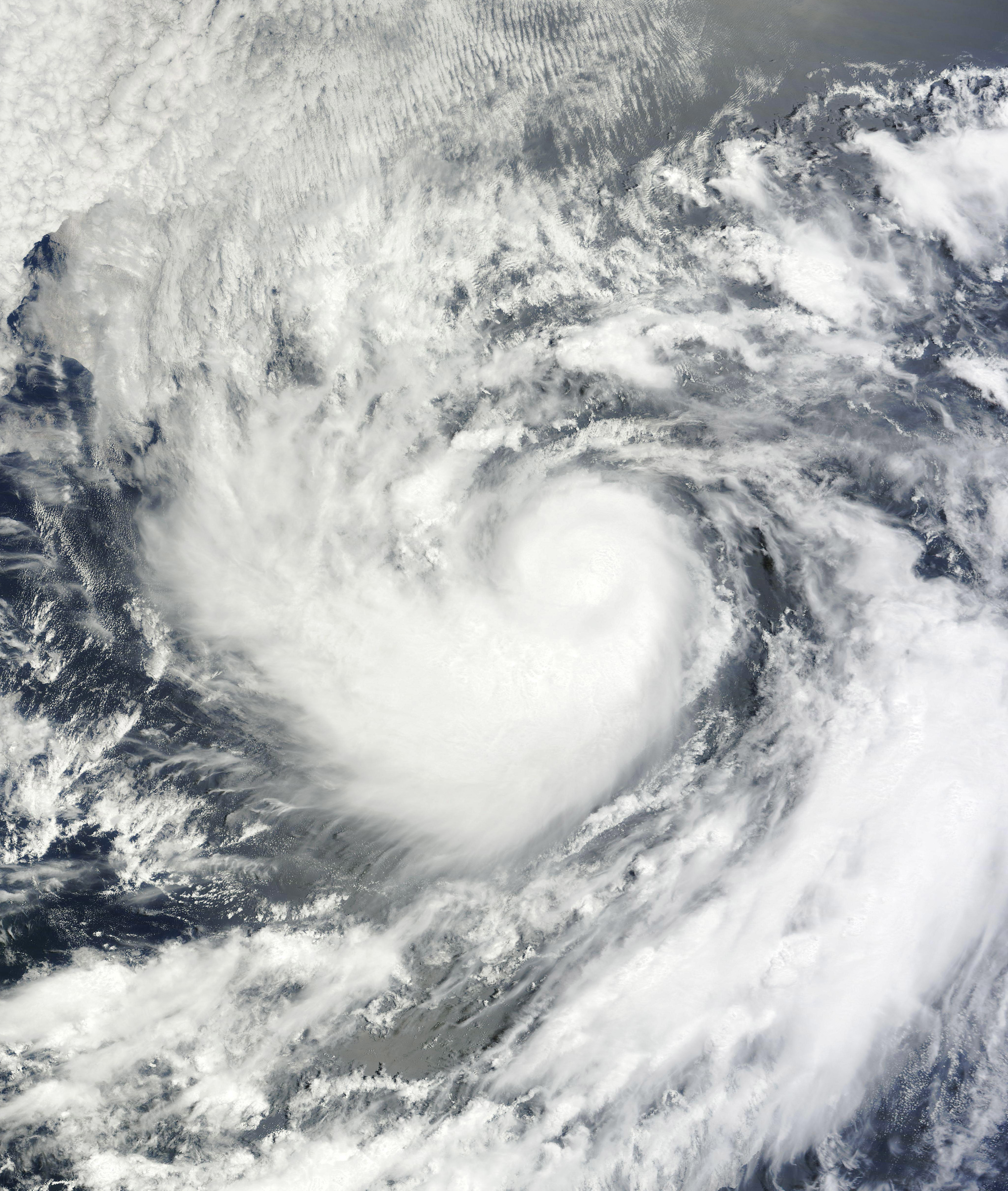 Tropical Storm Gilma on August 8, 2012